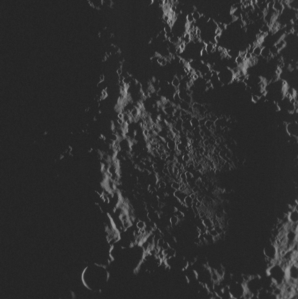 Kenkō crater on Mercury. MESSENGER Narrow Angle Camera image. North is at top. Width is approximately 168 km at bottom. Emission Angle: 11.2 Incidence Angle: 89.3 Latitude: -21.0 Longitude: 343.3 Phase Angle: 100.5